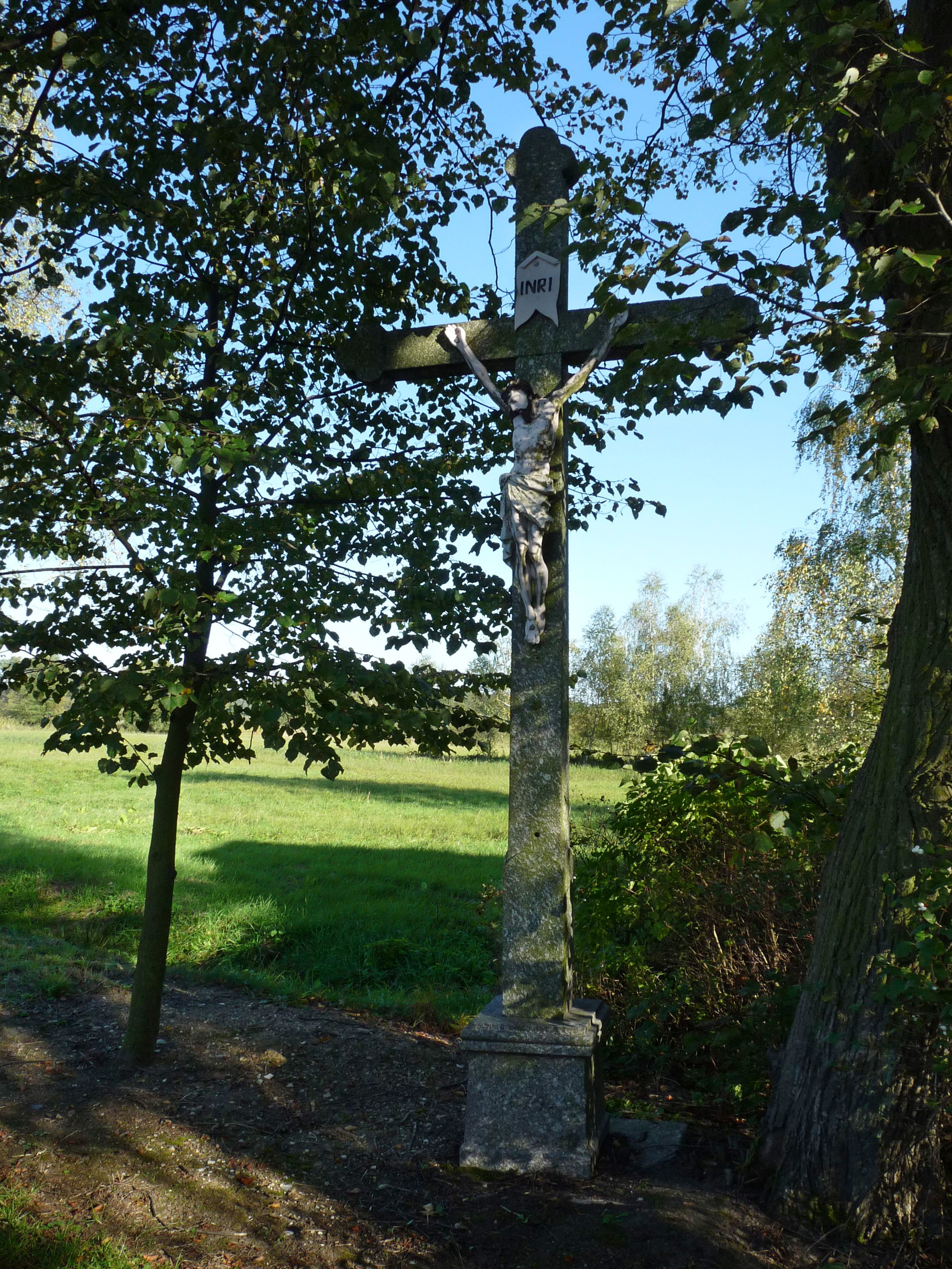 Wayside cross in the village of Radomilice, České Budějovice District, South Bohemian Region, Czech Republic, part of the municipality of Dříteň.